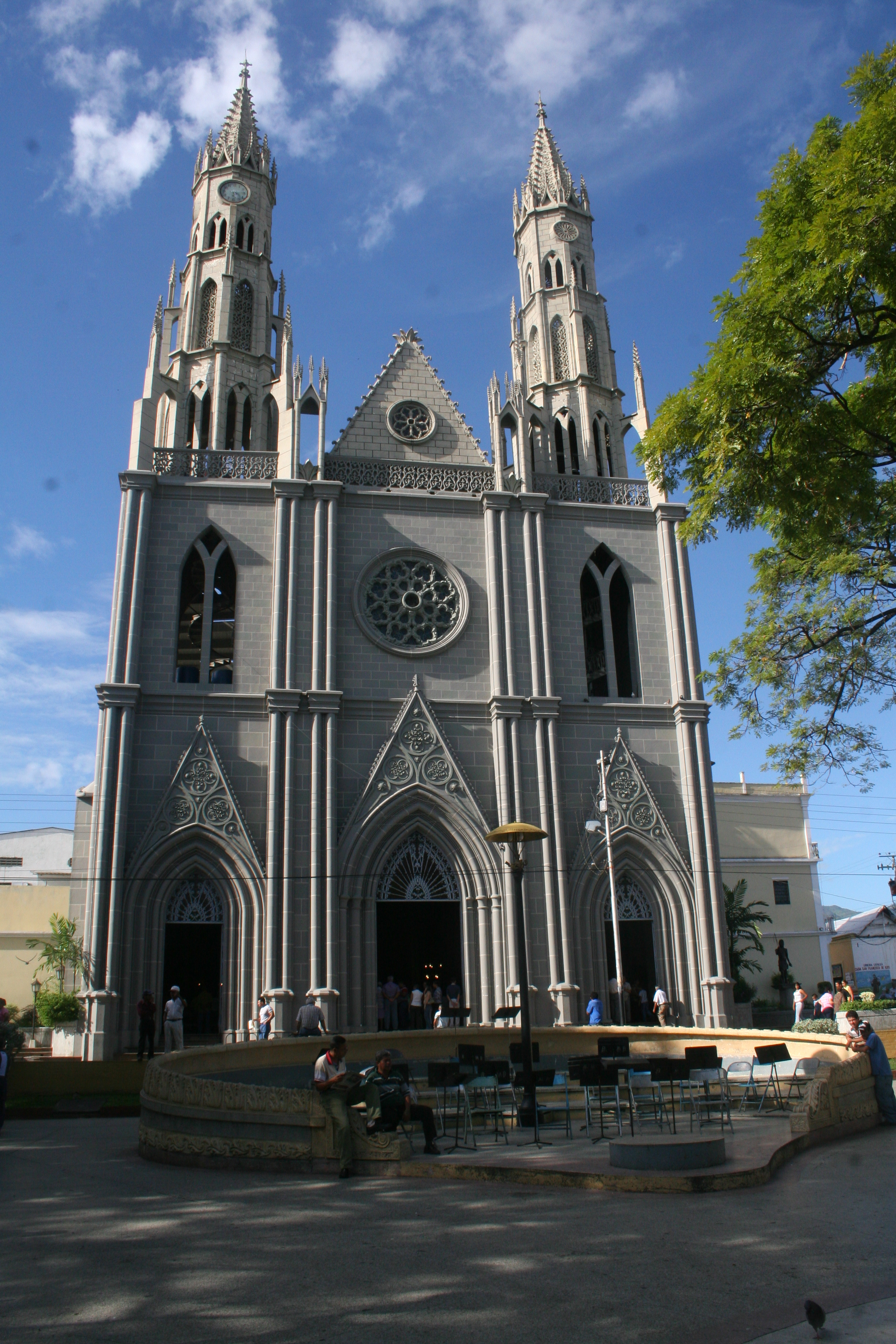 San Sebastián Church. Valera, Trujillo State, Venezuela.